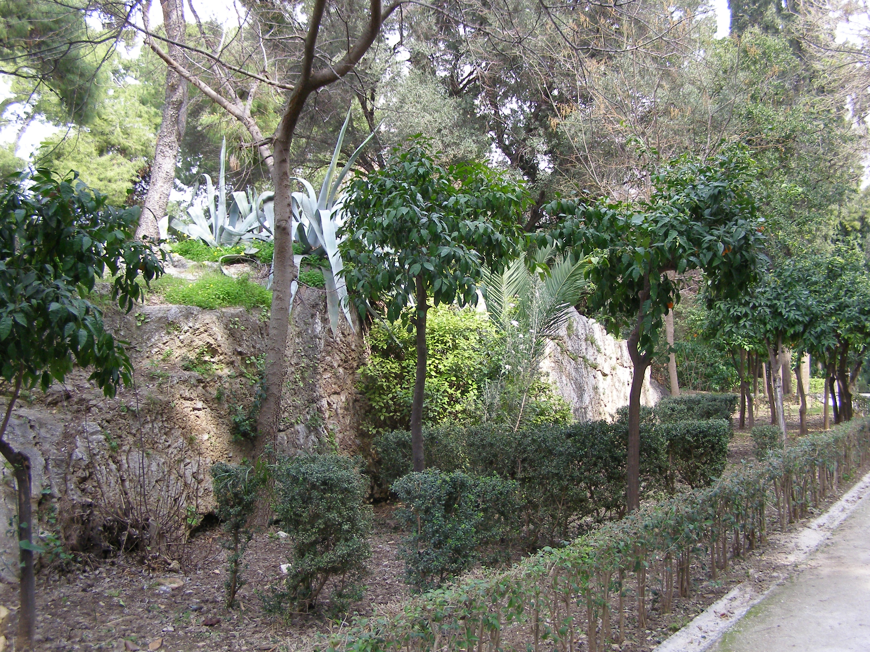 Athens - National Garden